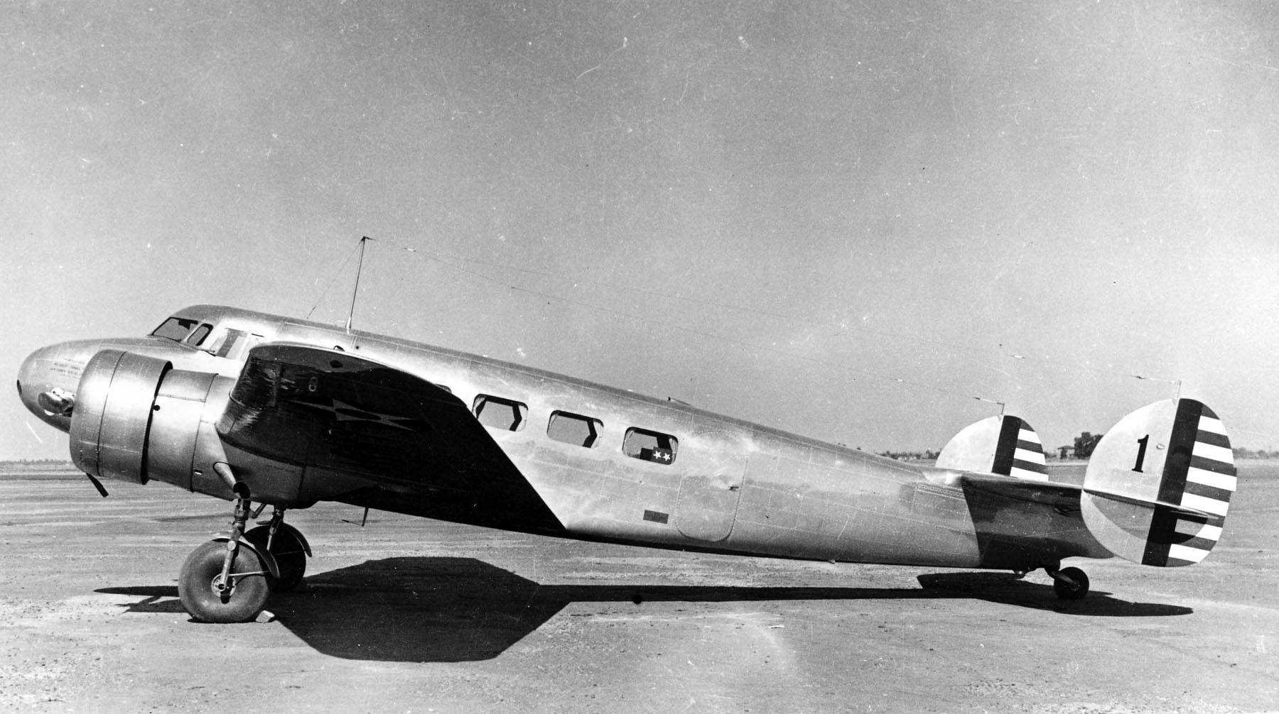 Lockheed Y1C-37, National Guard aircraft No. 1. Note two-star general insignia in the rear passenger window. This type was later redesignated as C-37 and then again as UC-37. (U.S. Air Force photo)